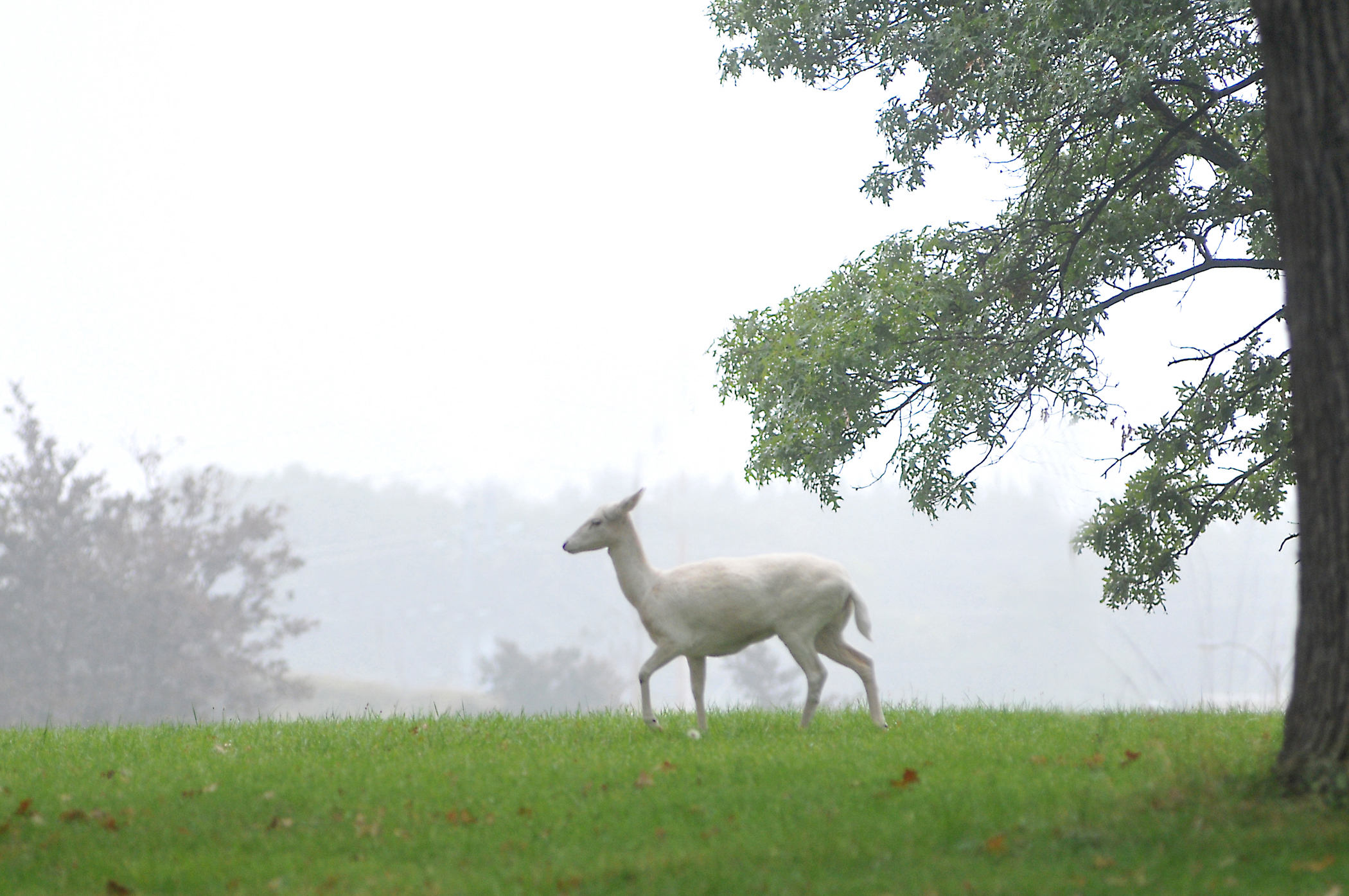 One of Argonne's famous white deer makes a rare appearance on a misty morning. Visitors to Argonne National Laboratory are sometimes startled by the white deer roaming the site and occasionally speculate on the nature of the experiment that produced their unusual coloring. But the deer are perfectly normal fallow deer (Dama dama), a naturally light-colored species native to North Africa, Europe and parts of Asia. There are about 40 on the Argonne site. Today’s herd began with eight or nine white deer that Gustav Freund, inventor of “skinless” casings for hot dogs, received or purchased from Chicago clothier Maurice L. Rothschild.